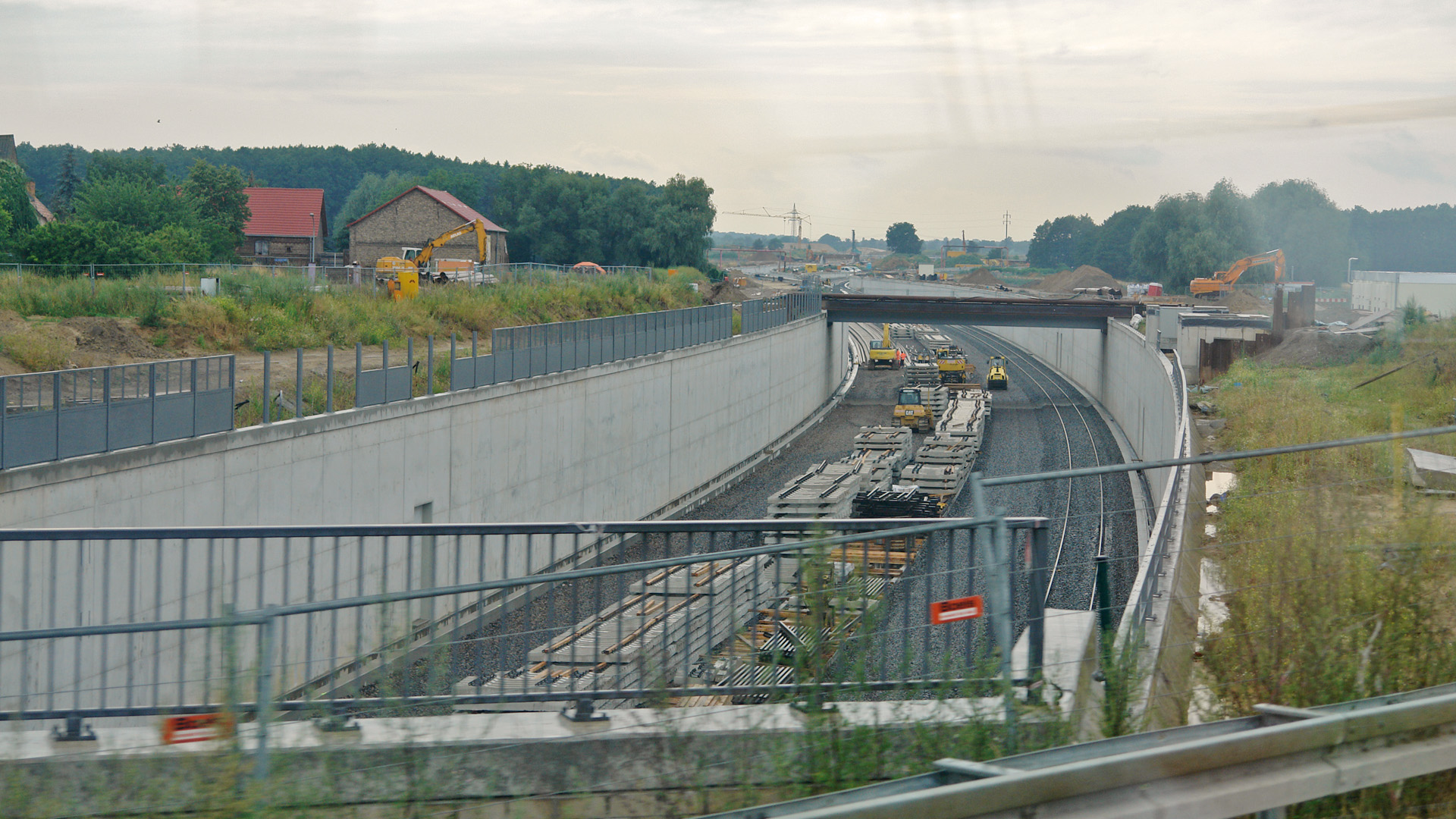 Construction work at the entrance of the rail tunnel leading to the new Airport Berlin Brandenburg (BER).